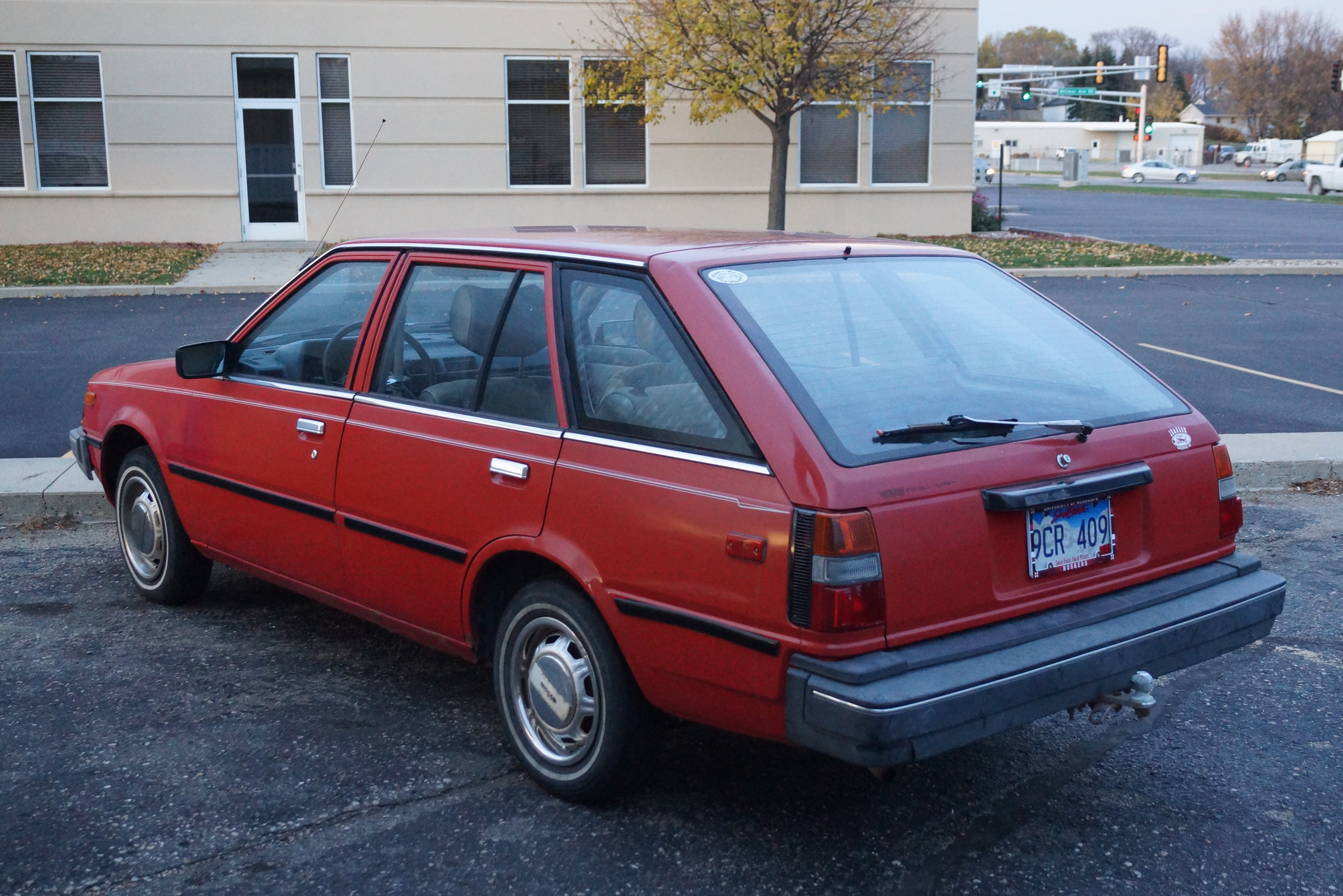 Click here for more car pictures at my Flickr site. Or here for my Car Crazy Tumblr site.